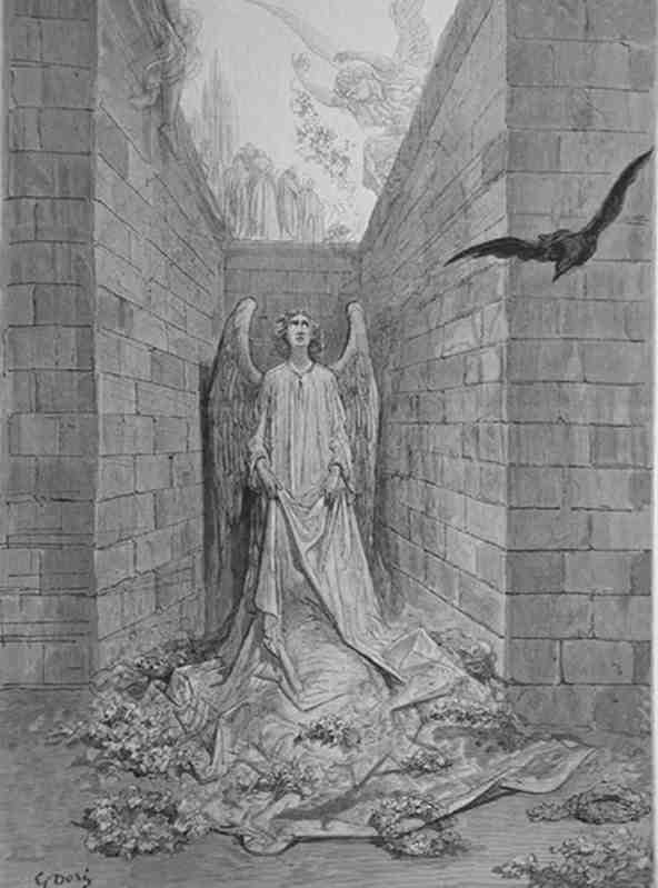 Illustration 5 of Edgar Allan Poe's The Raven for the lines: "Sorrow for the lost Lenore - for the rare and radiant maiden whom the angels name Lenore"